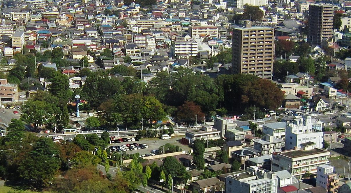 Lunar Park, View from Gunma Prefectural Government Building (Maebashi, Gunma).